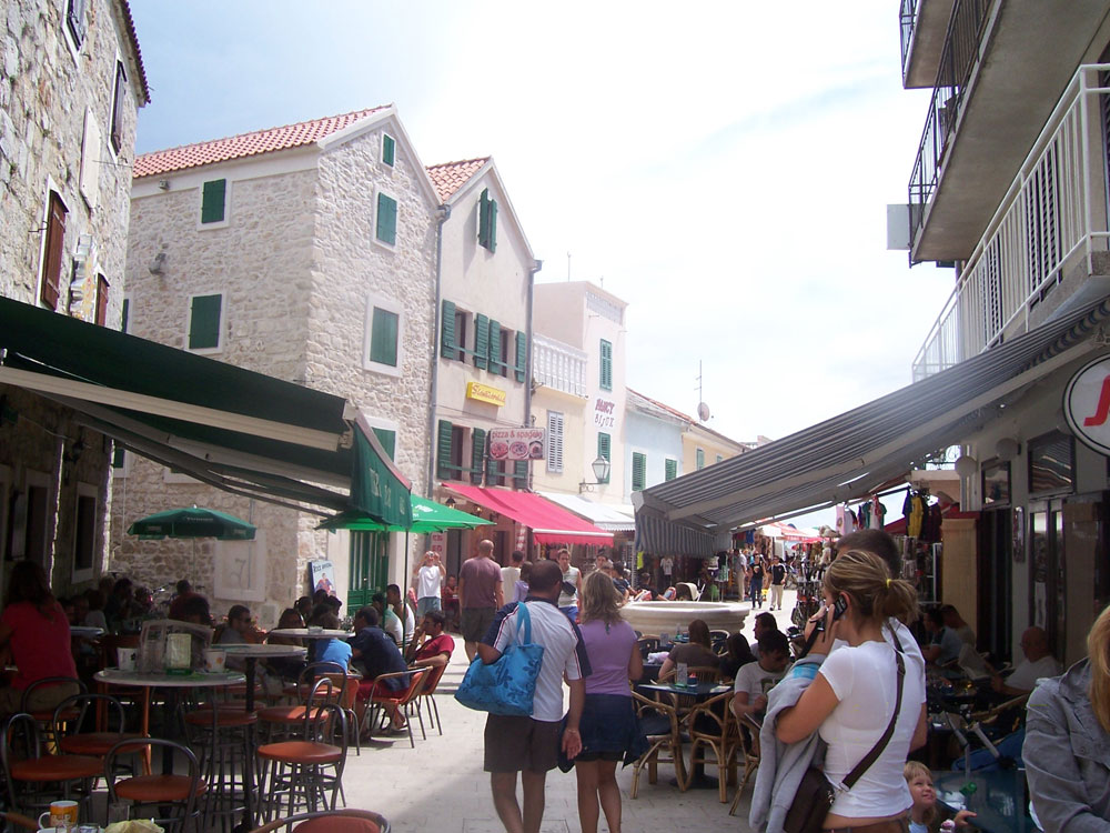 Street Vodice, Croatia.